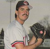 Professional baseball player Kevin Wickander